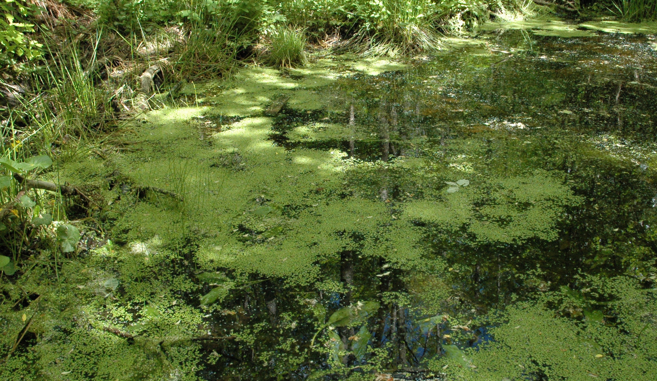 My own photograph of a dam with Lemna minor, southern Norway. Summer 2006.